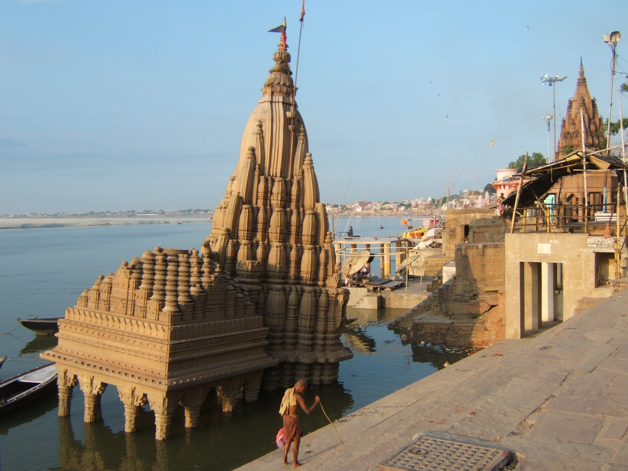 Scindia ghat at sunrise, with a little temple in the river